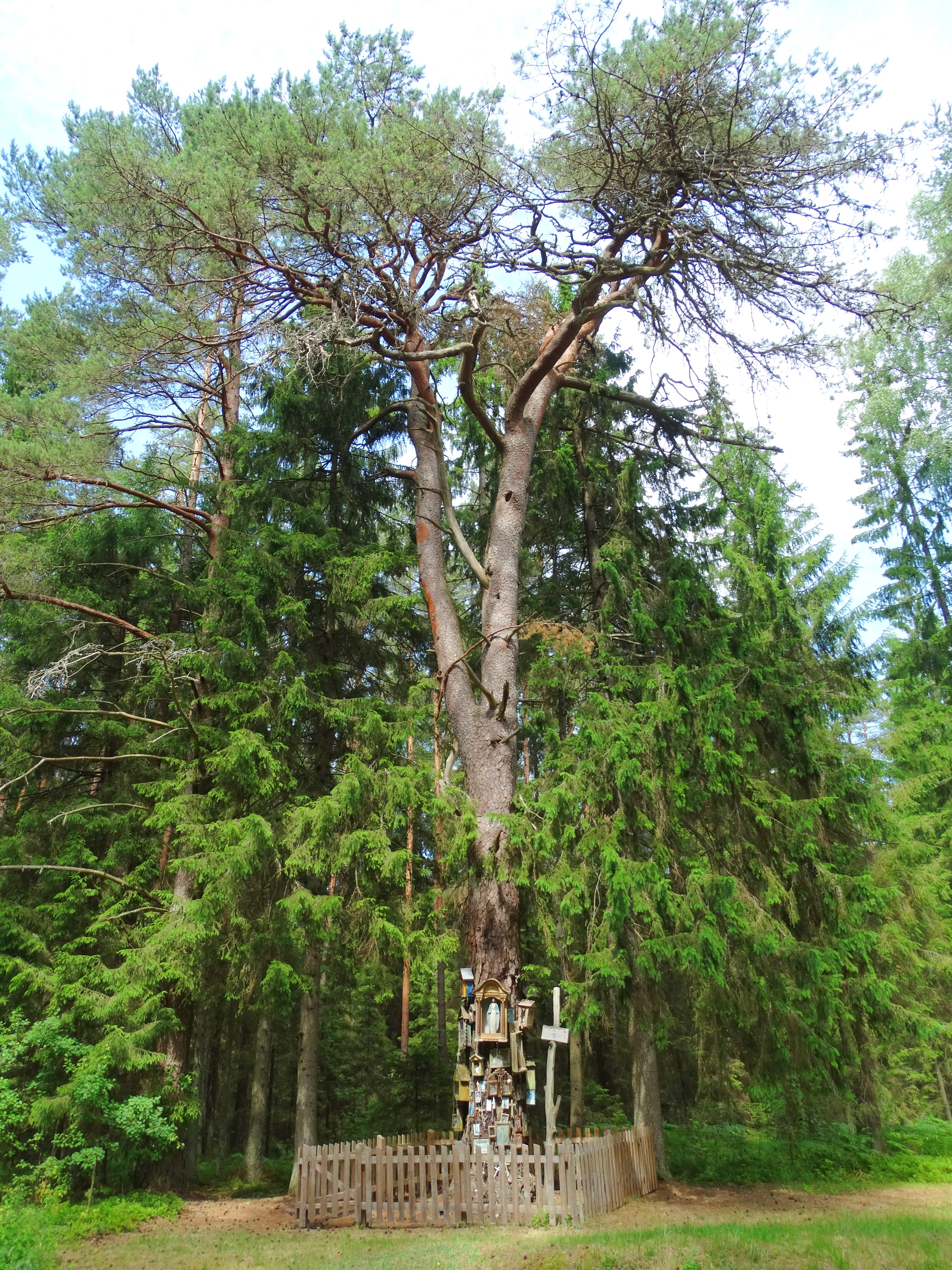 St. Martin's pine tree, Kelmė district, Lithuania